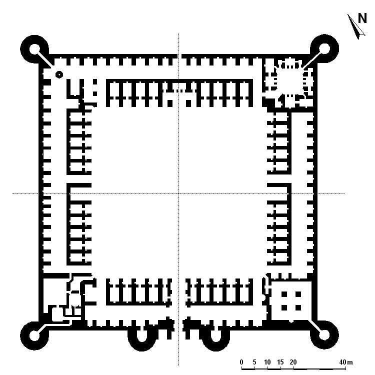 Plan of caravanseray Dair-e Gachin in IranHrvatski: Tlocrt karavan-saraja Dair-e Gačin